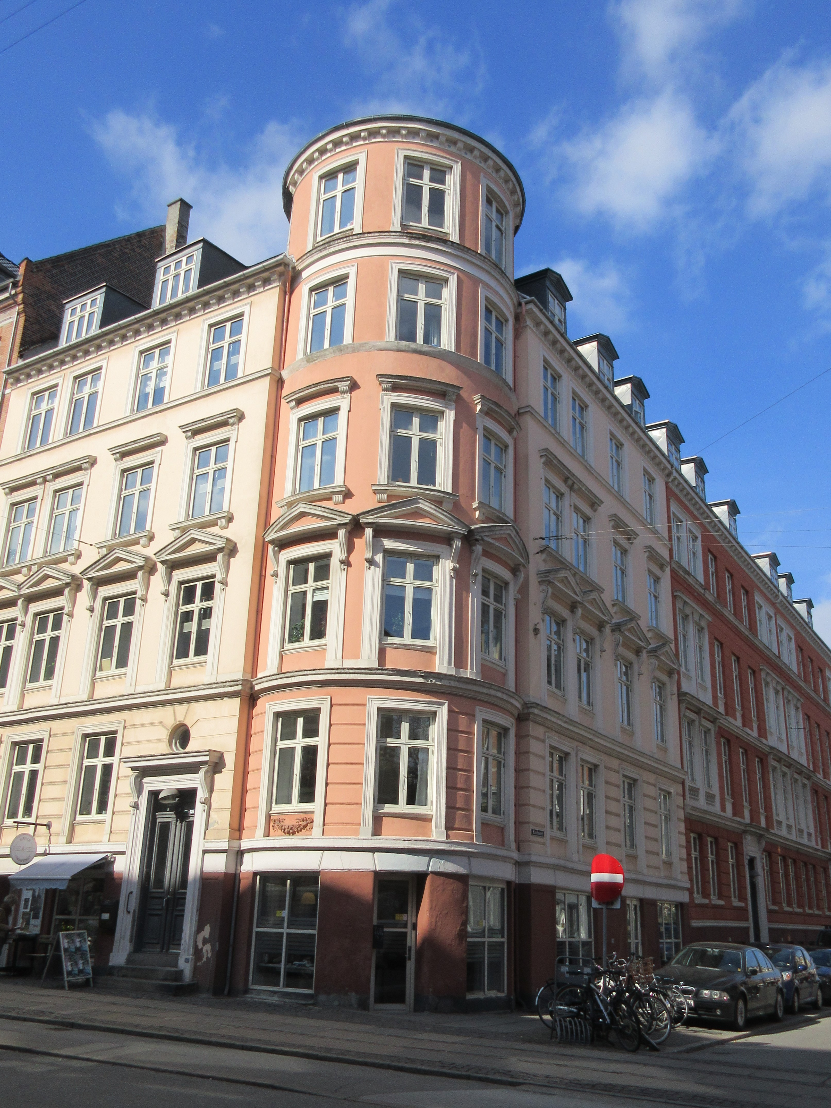 Vesterbrogade 176 in Copenhagen, Denmark